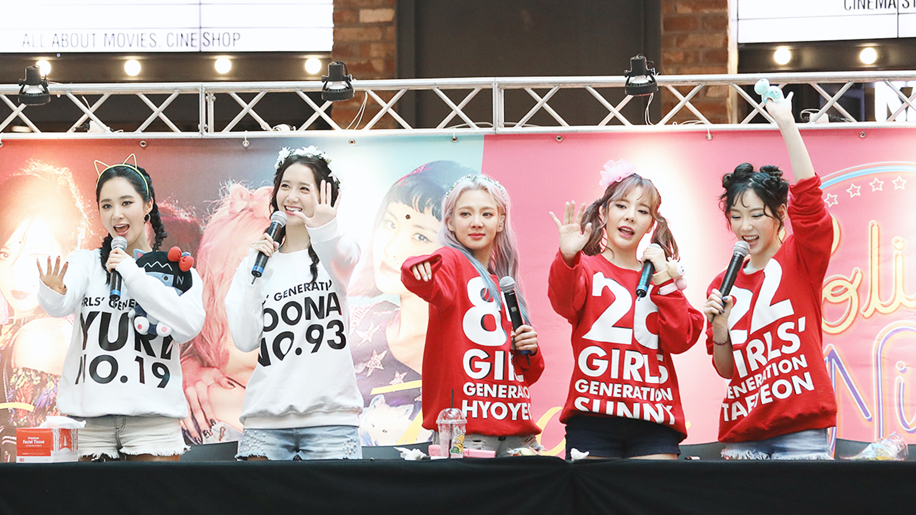 Girls' Generation at fansigning event in IFC Mall on August 13, 2017.